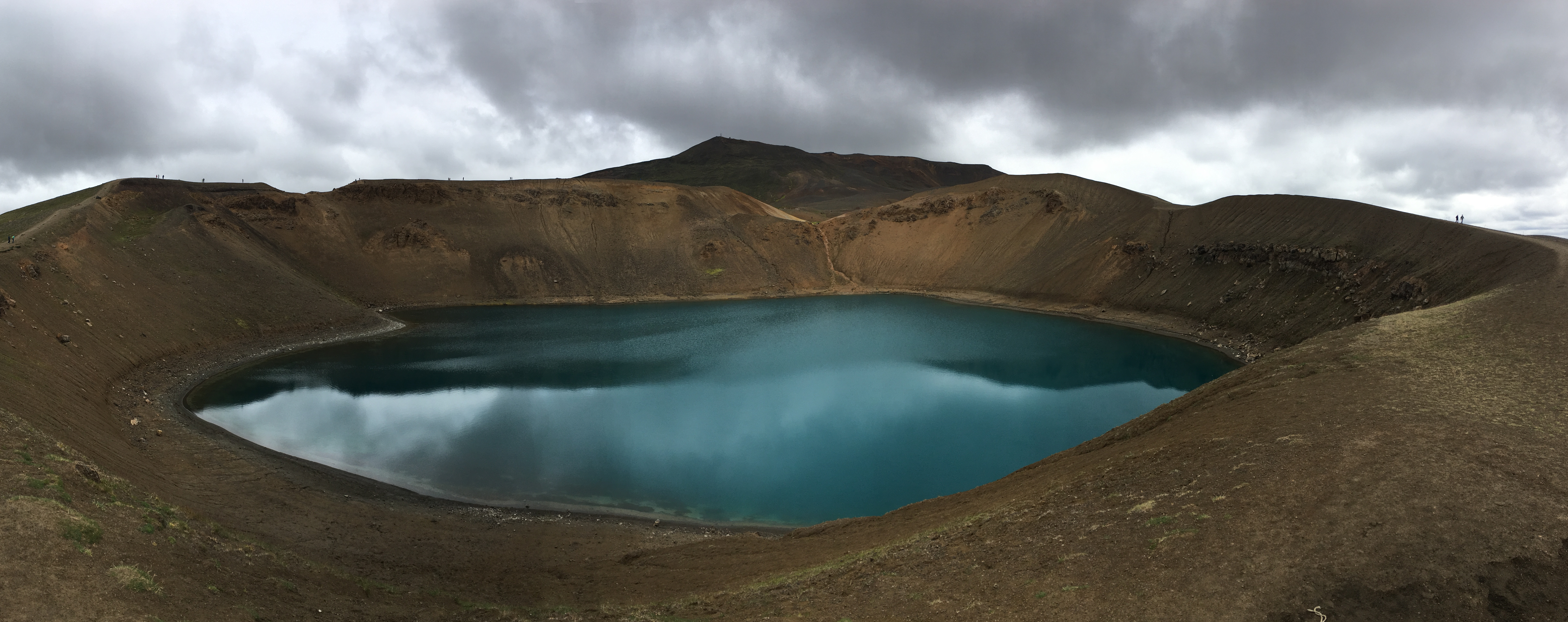 Viti Krafla is a caldera lake in Iceland